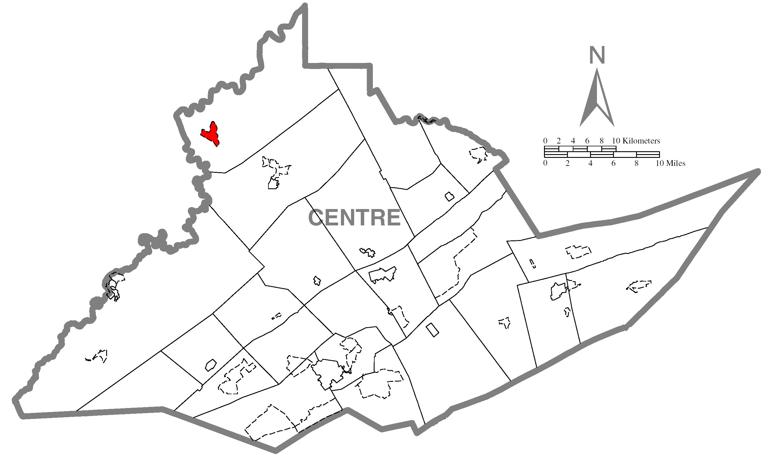 A map of Centre County showing Pine Glen, Pennsylvania (alternate) highlighted on the map.